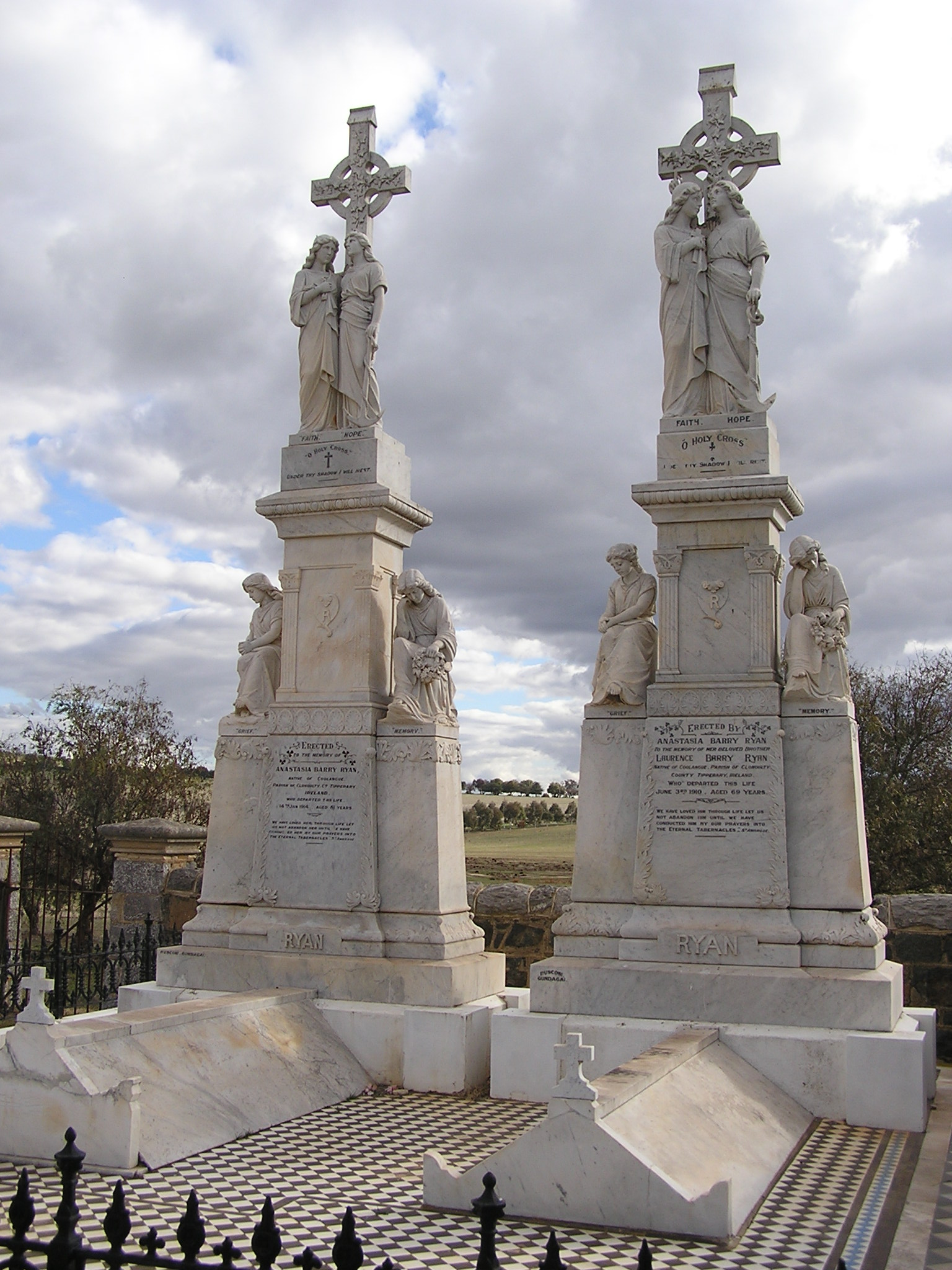 A pair of white marble monuments to the Ryan family at Galong, New South Wales, Australia, carved by Frank Rusconi